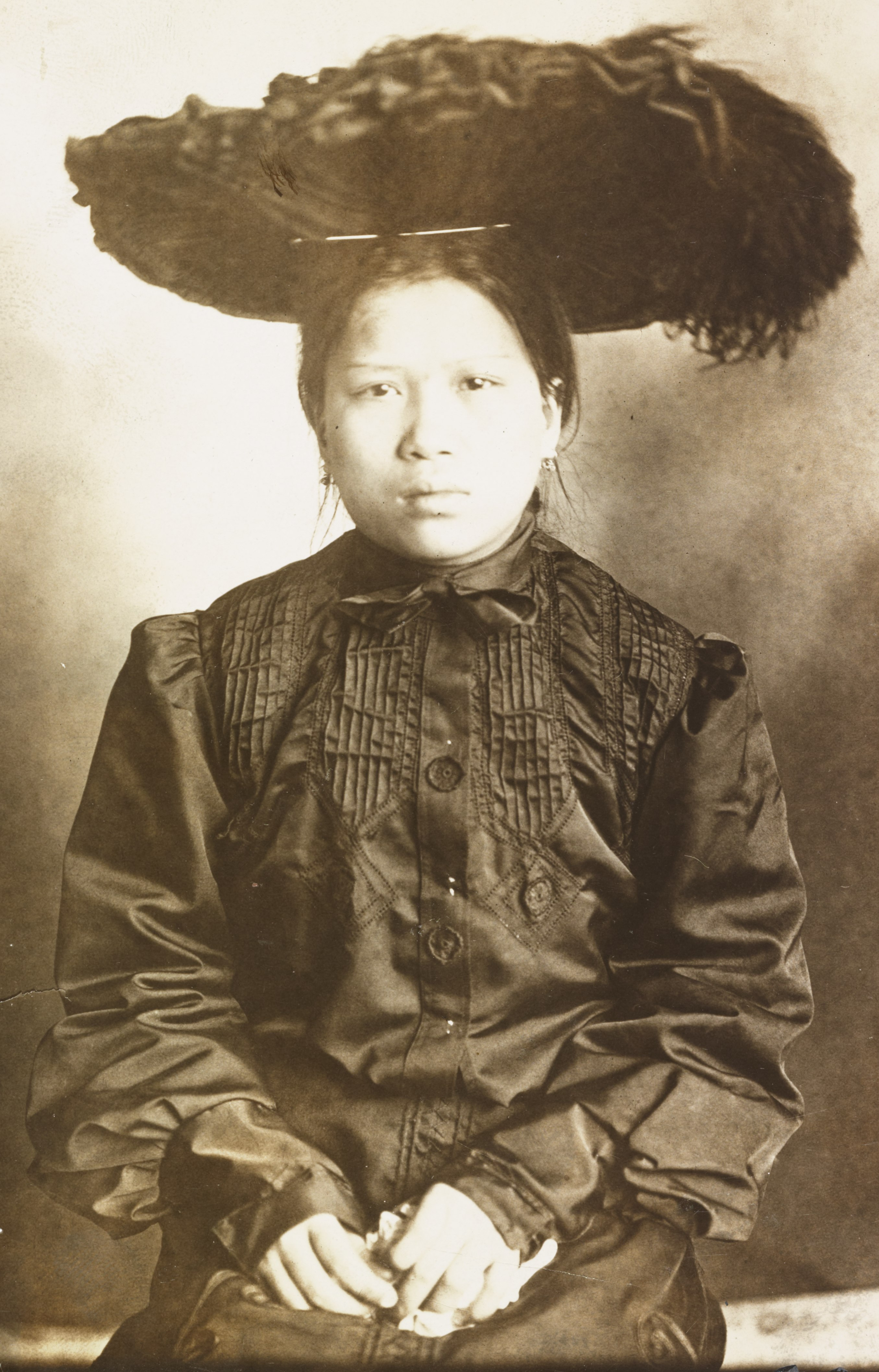 Title: Tie You, wife of Mock Duck, leader of Hip Sing Tong organization in Chinatown, New York City, New York Abstract/medium: 1 photograph : gelatin silver print ; 11 x 17 cm.